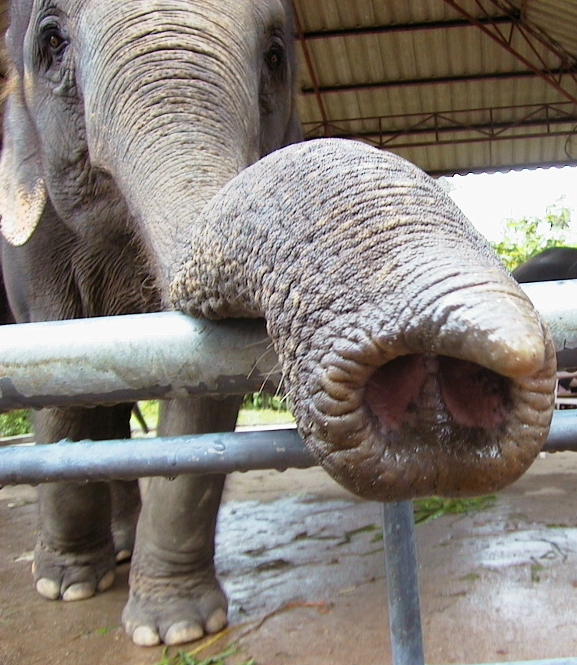 Closeup and all to personal taking this photo up and elephants trunk in the Phuket zoo Thailand. Bannanas were required to get this shot.